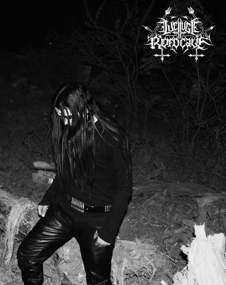 Sarth Norgaath Santeliz, Guitars and vocalist of the band Lucifuge Rofocale.